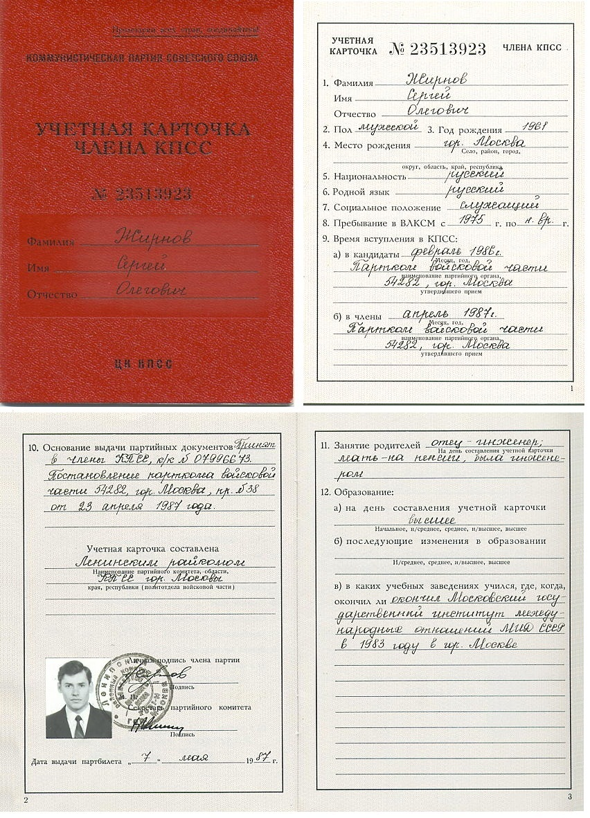 Official documents. Account card of the member of the Communist party of the Soviet Union. Consists of 8 pages.